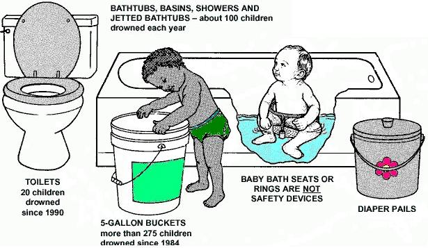 Drowning Hazards: 5-Gallon Buckets, Bathtubs, Toilets, Baby Bathtub Supporting Rings, and Diaper Pails